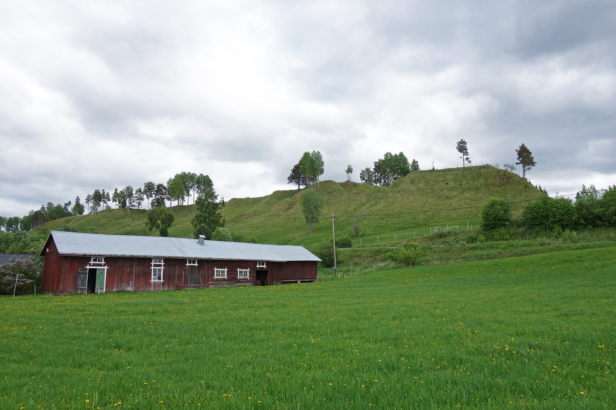 The pastures of the eroded river terraces in the village Tängsta, Resele, northern Sweden, is part of an area of national interest for nature conservation.